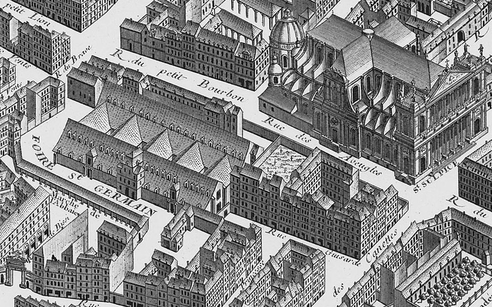 Detail from plate 11 of Turgot's 1739 map of Paris showing the Foire Saint-Germain (left of center) and the Église Saint-Sulpice (upper right)